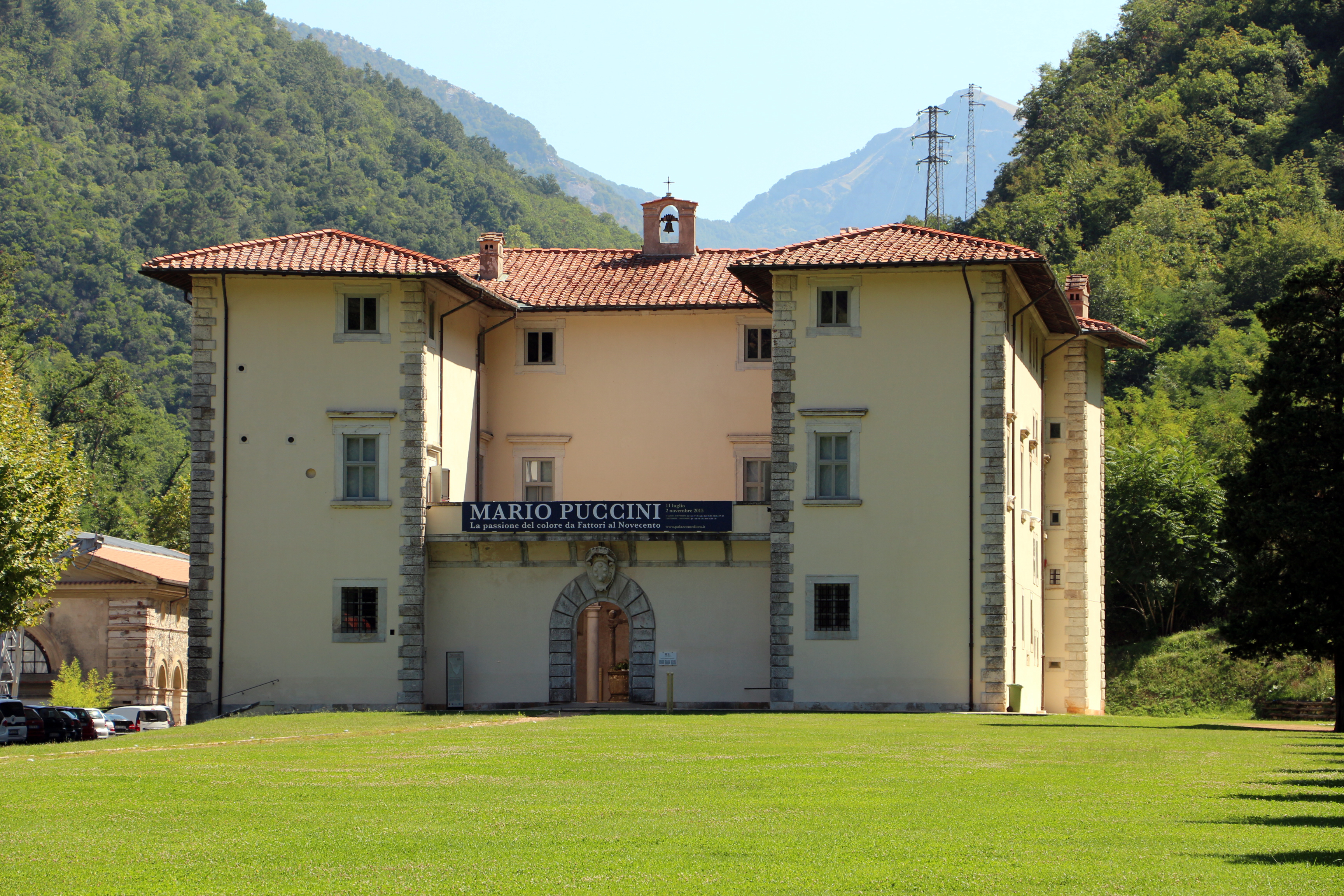 Seravezza Medici Palace